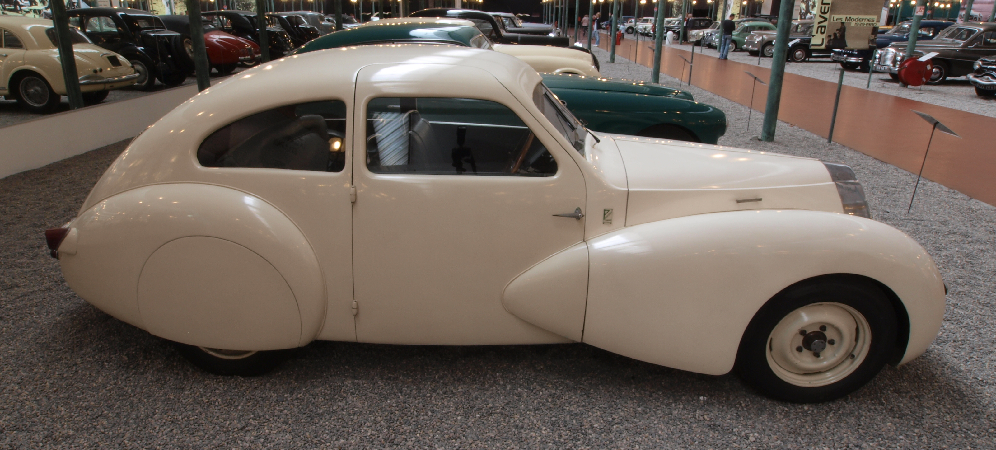 Photographed at the Cité de l’Automobile, France. OLYMPUS DIGITAL CAMERA